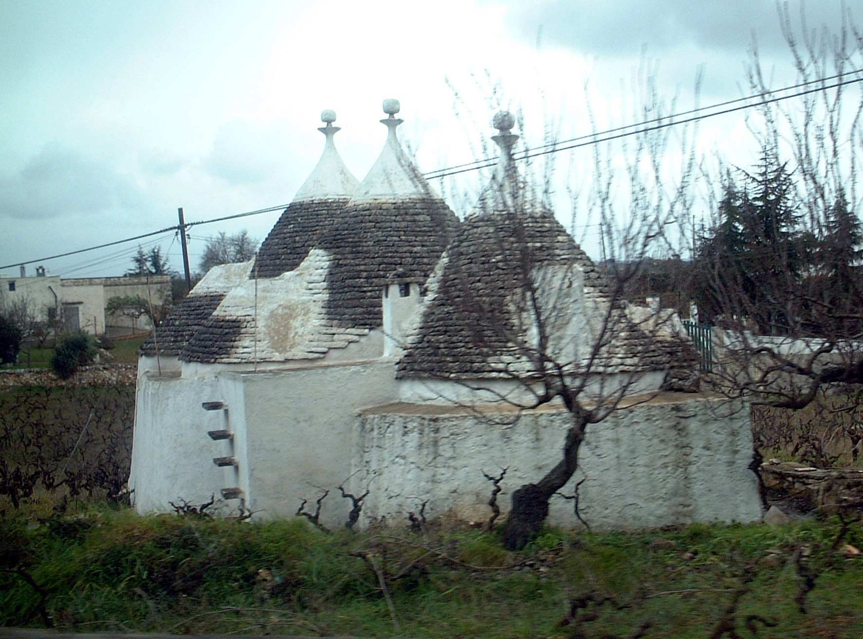 Trullo house near Martina Franca, Taranto, Italy. Weather was cloudy.